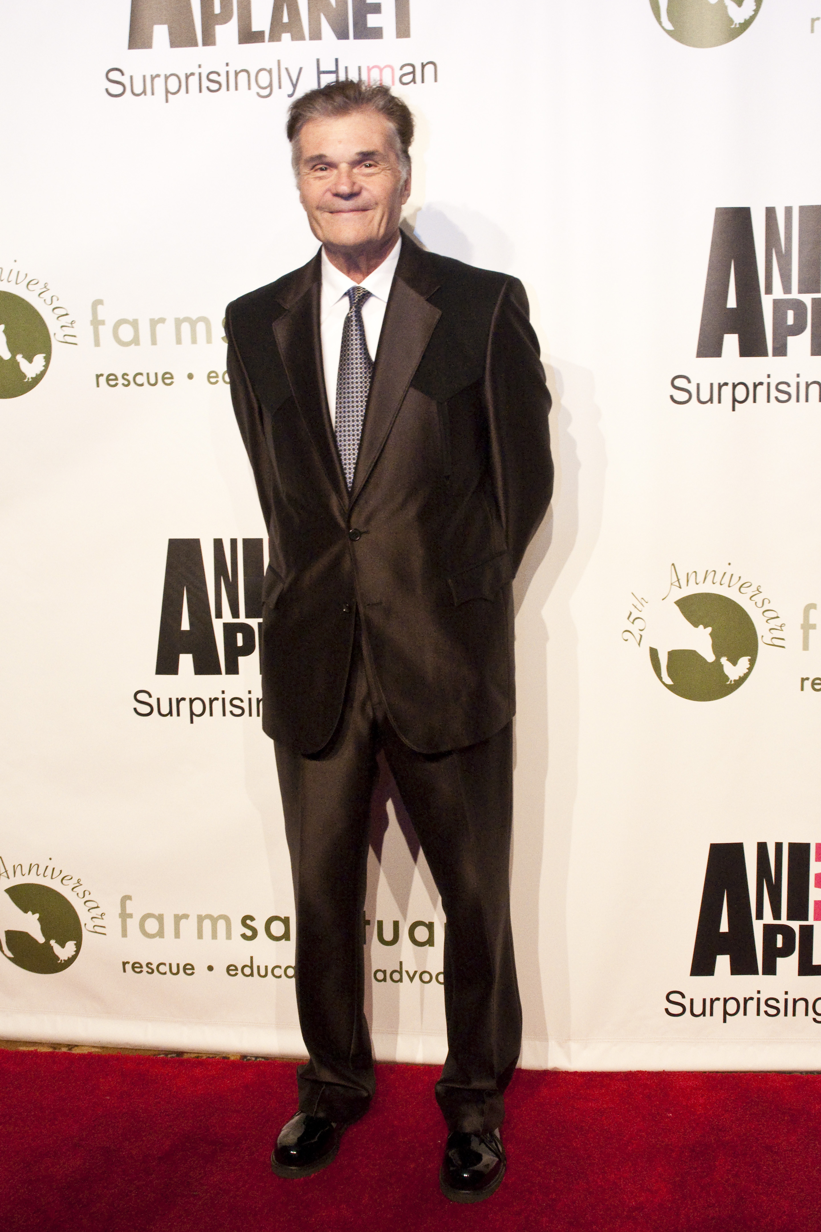 Fred Willard at the Farm Sanctuary 25th Anniversary Gala in New York City.